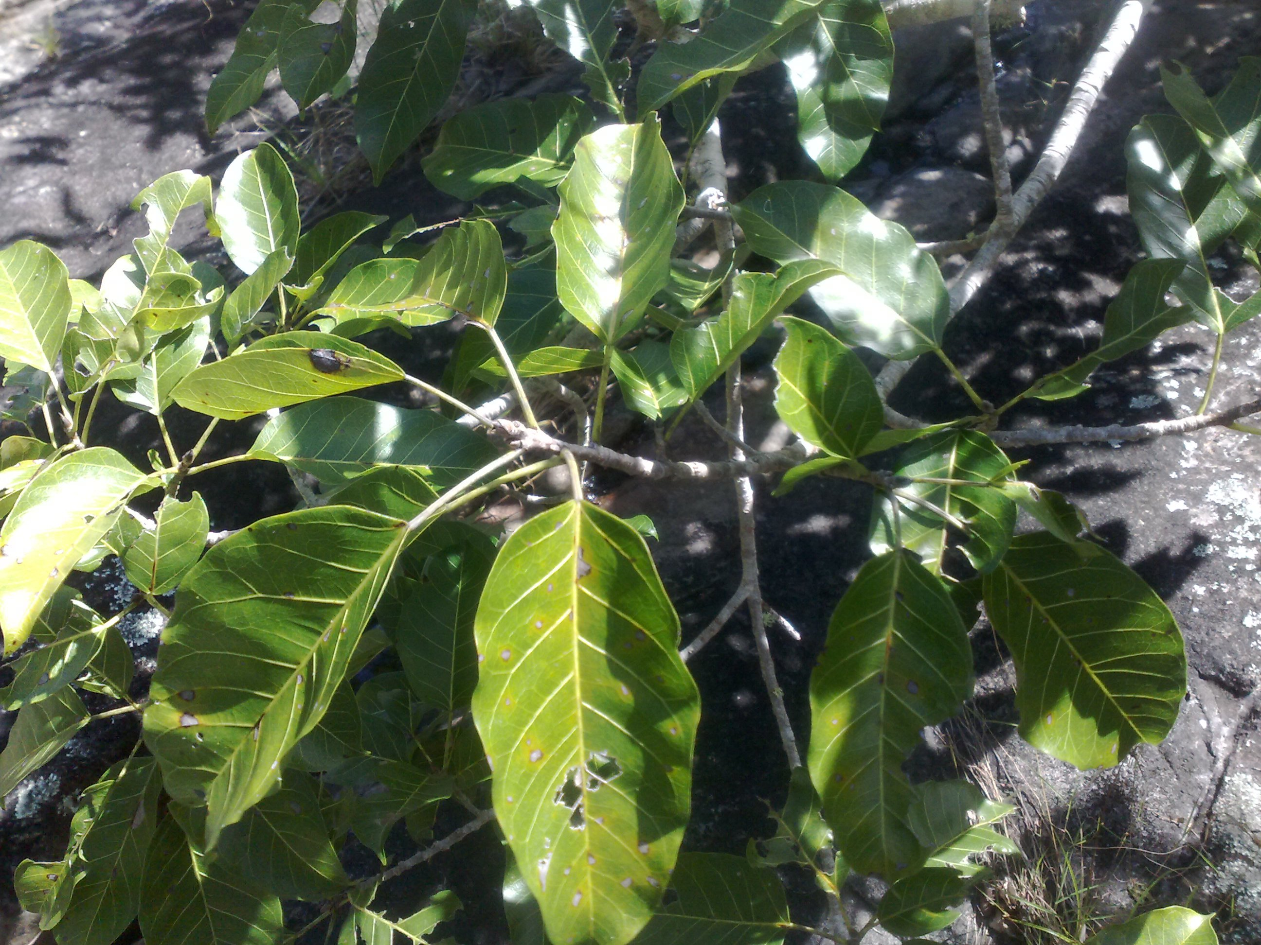 Ficus fraseri foliage, at Mt Archer National Park, Queensland